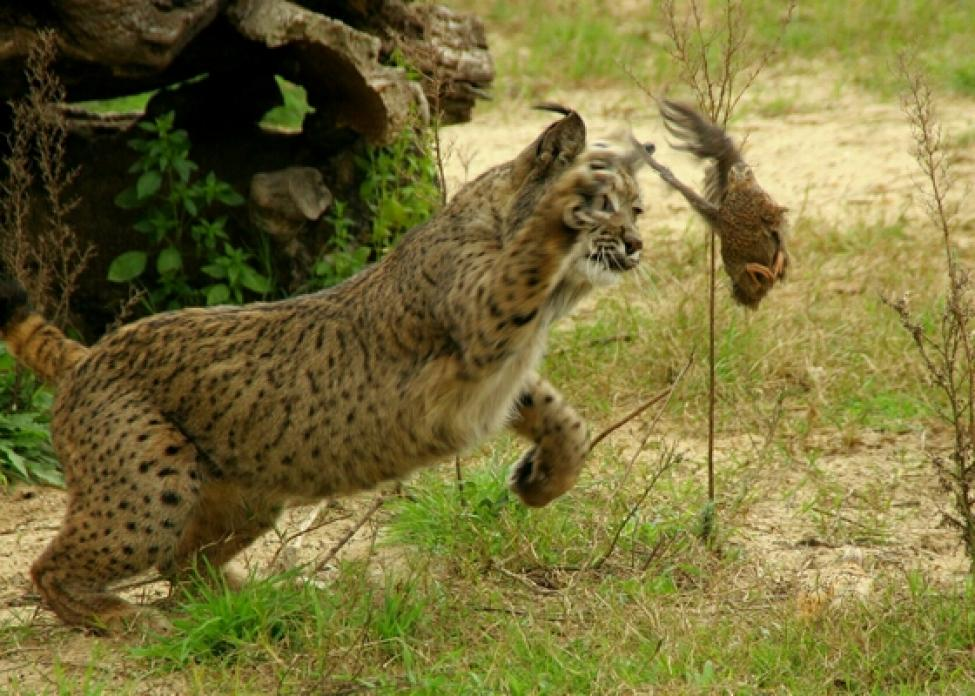 Iberian Lynx adult from the Program Ex-situ Conservation